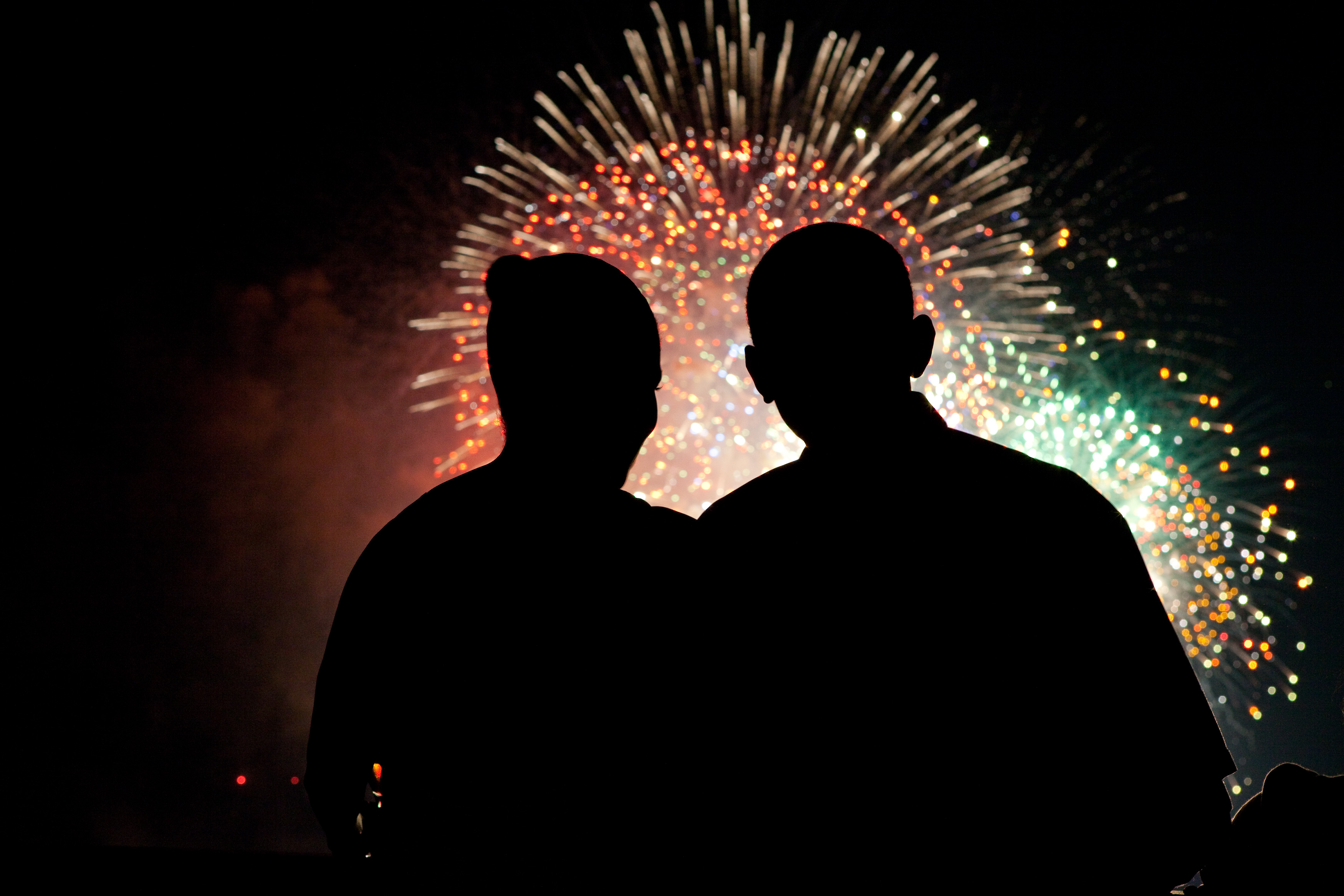 President Barack Obama and First Lady Michelle Obama watch the fireworks over the National Mall from the White House on July 4, 2009. (Official White House photo by Pete Souza)